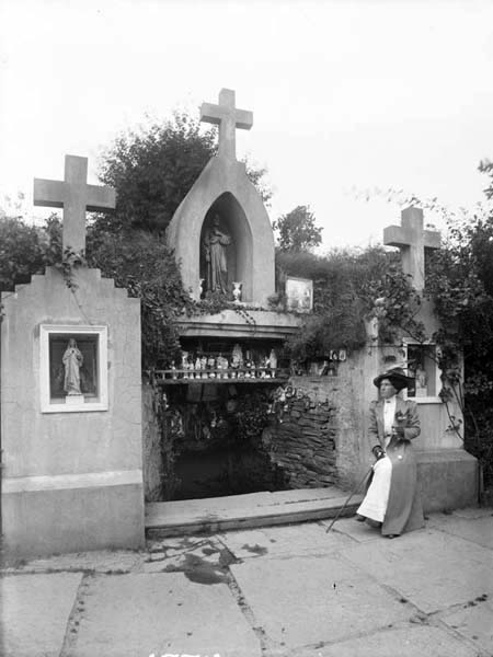 Photograph taken between ca. 1880 and 1914 Format: glass negative Part of: National Library of Ireland Lawrence Collection Reference number: L_ROY_11331